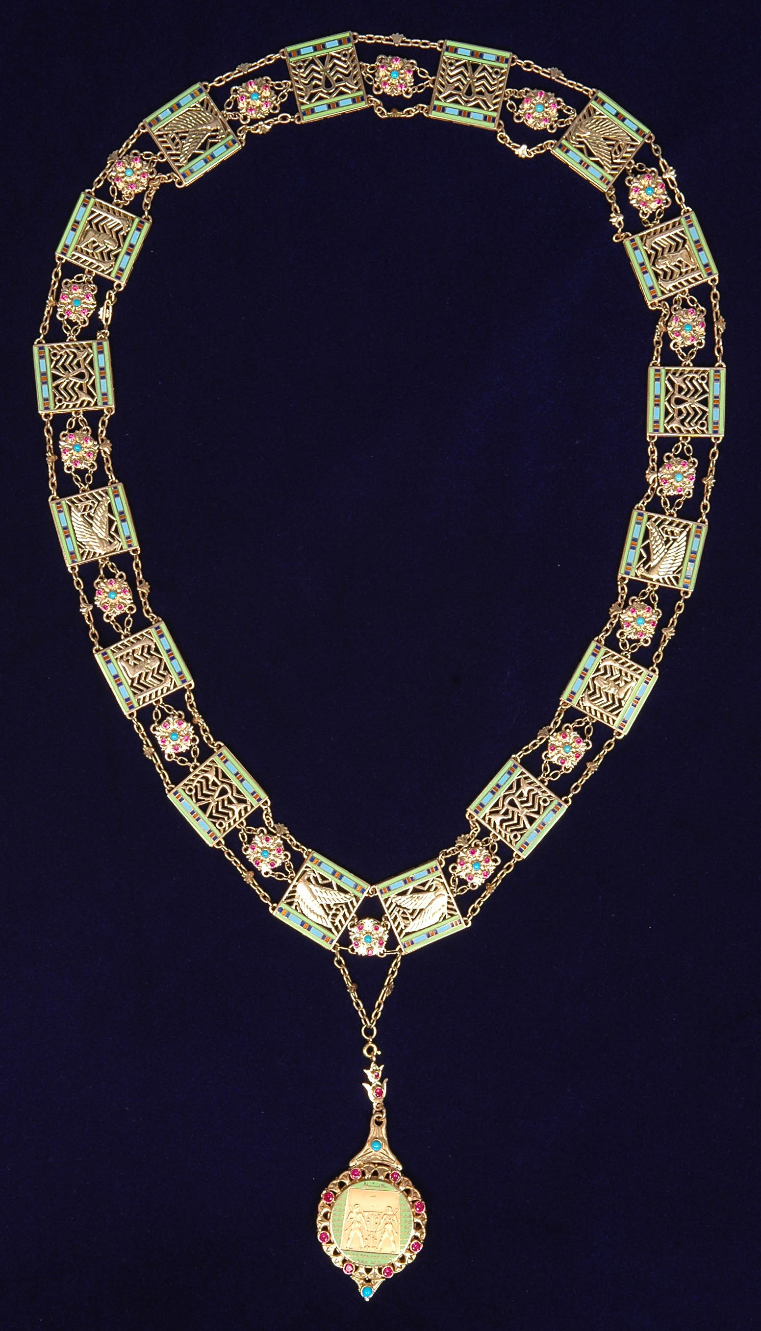 Order of the Nile